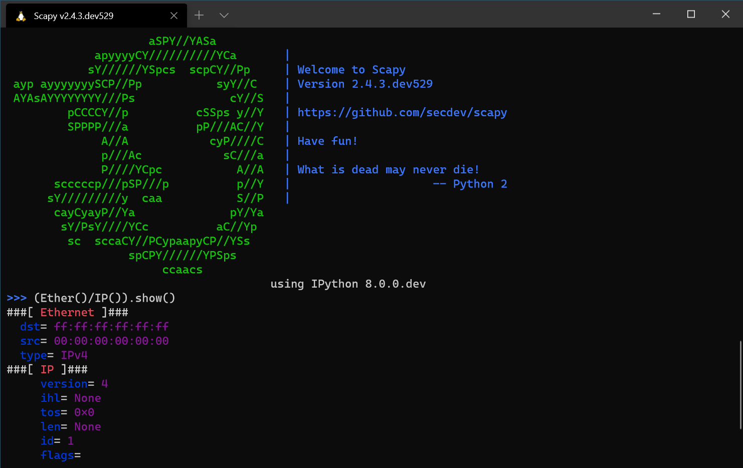 Scapy 2.4.3 in a terminal